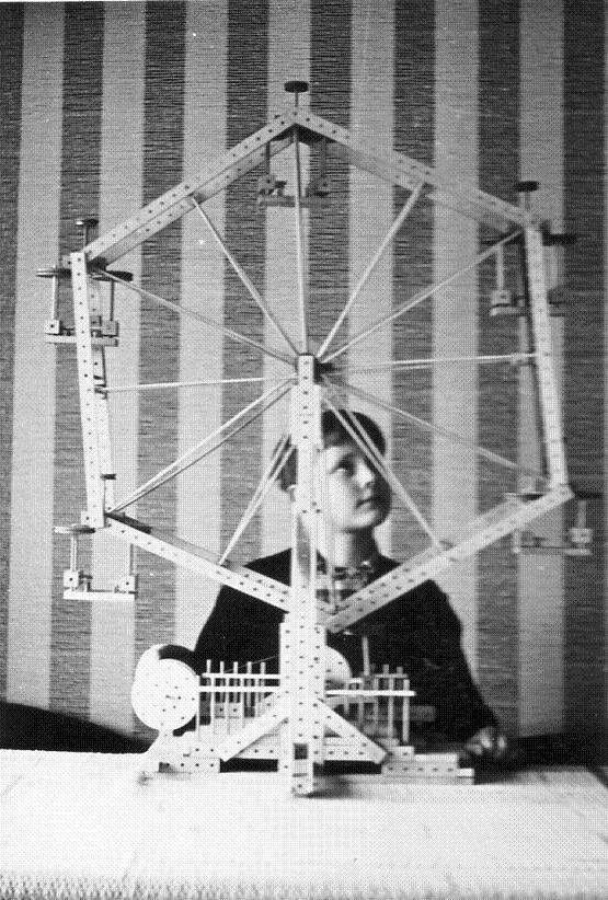 Ferris wheel, built with Matador toy blocks.